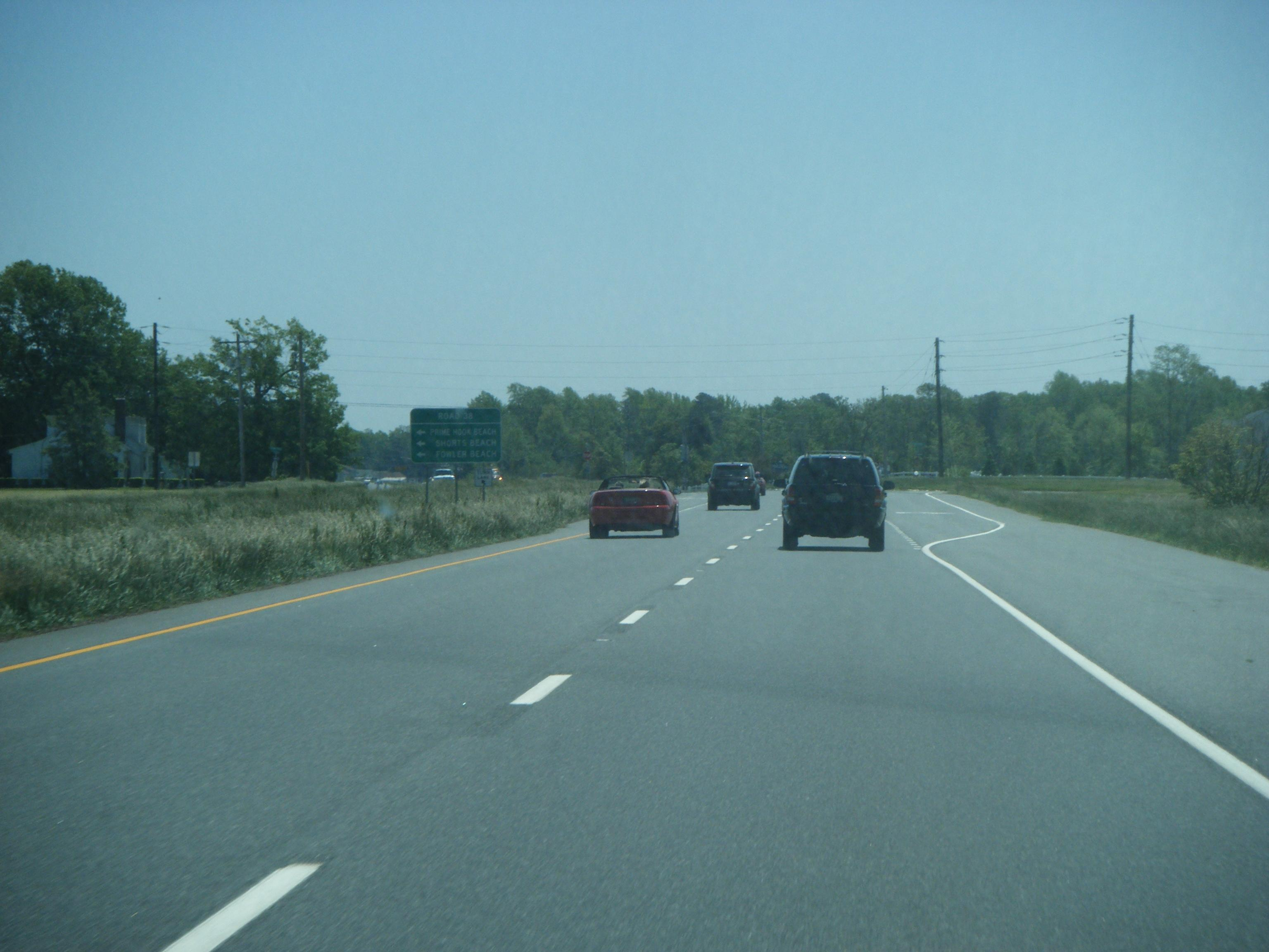 Southbound Delaware Route 1 approaching the intersection with Primehook Road near Milton, Delaware.